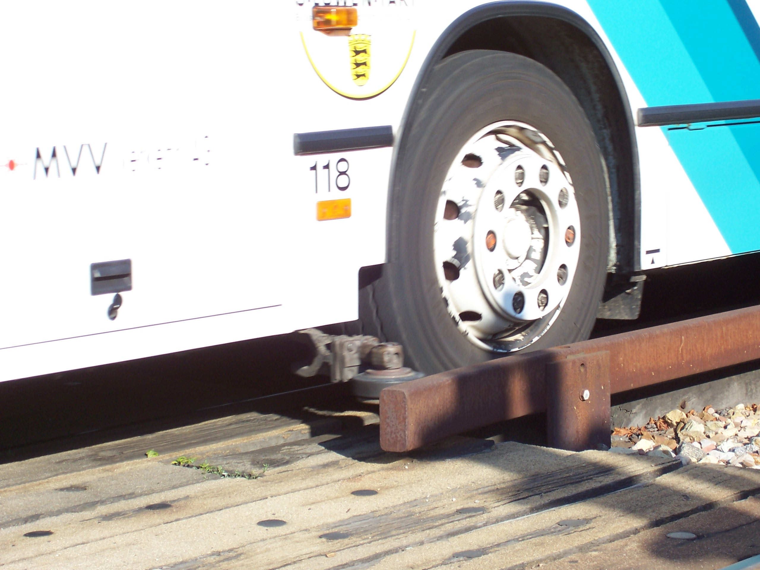 Detail of the guide wheel on the kerb guided busway in Mannheim My own photo from 31-aug-2005